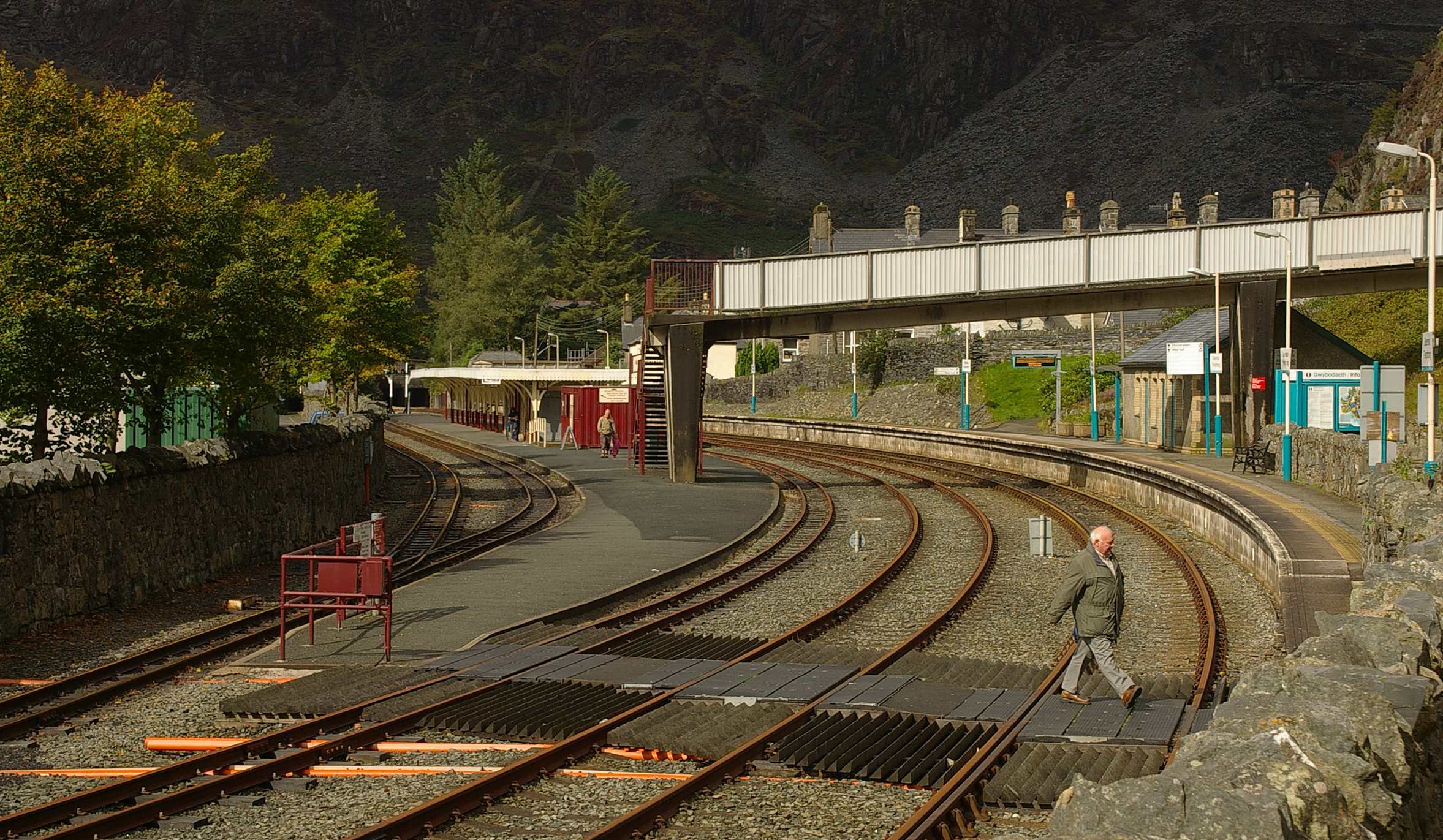 Blaenau Ffestiniog railway station, viewed from the car park at the east end of the station.